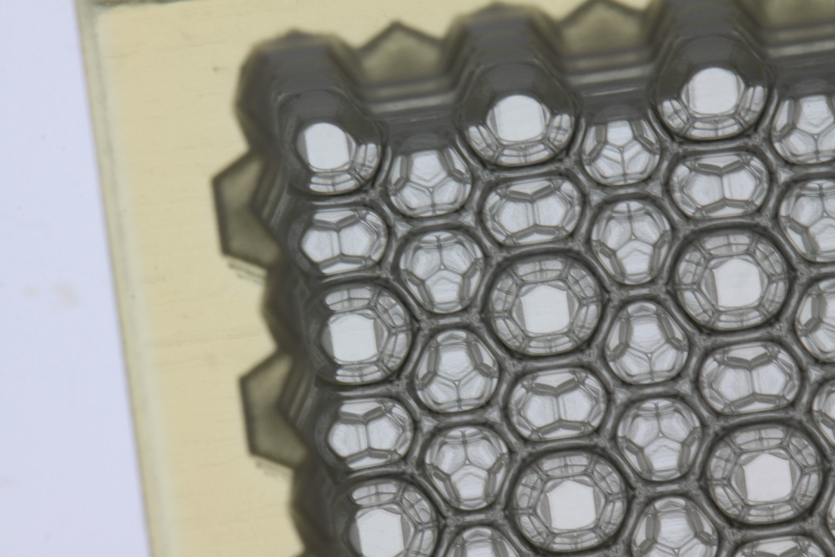 A close-up of a 3D printed, polymer mold filled with water and a number of nitrogen gas bubbles. Internal walls are patterned to direct self-assembly into a crystalline structure.